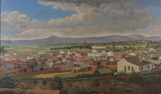 Peter Britt painting of Jacksonville as seen from Britt's home